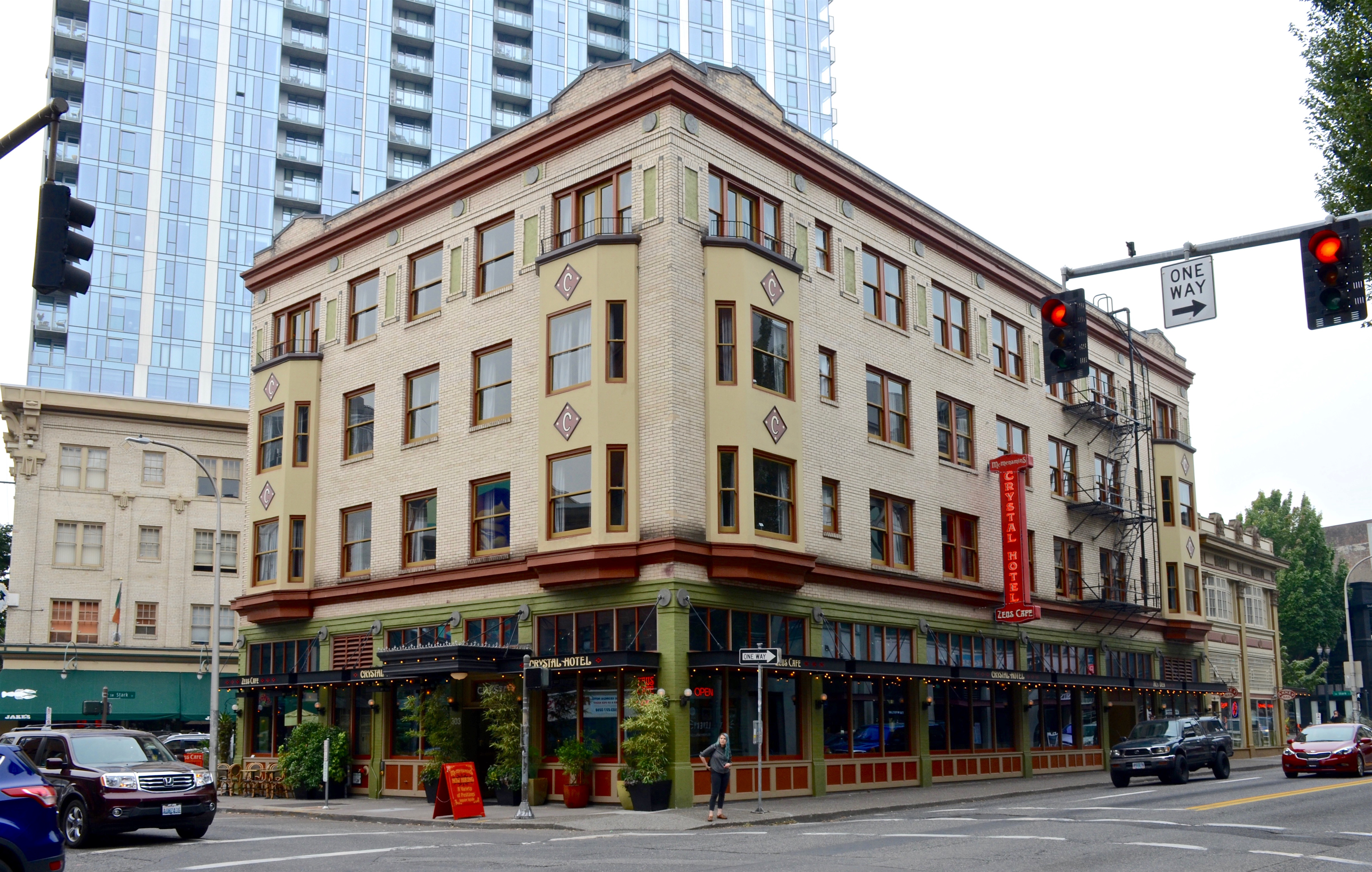 The Crystal Hotel, in downtown Portland, Oregon, is listed on the U.S. National Register of Historic Places under its original name, the Hotel Alma. This view is from the northeast, across the intersection of SW 12th Ave. & West Burnside St.